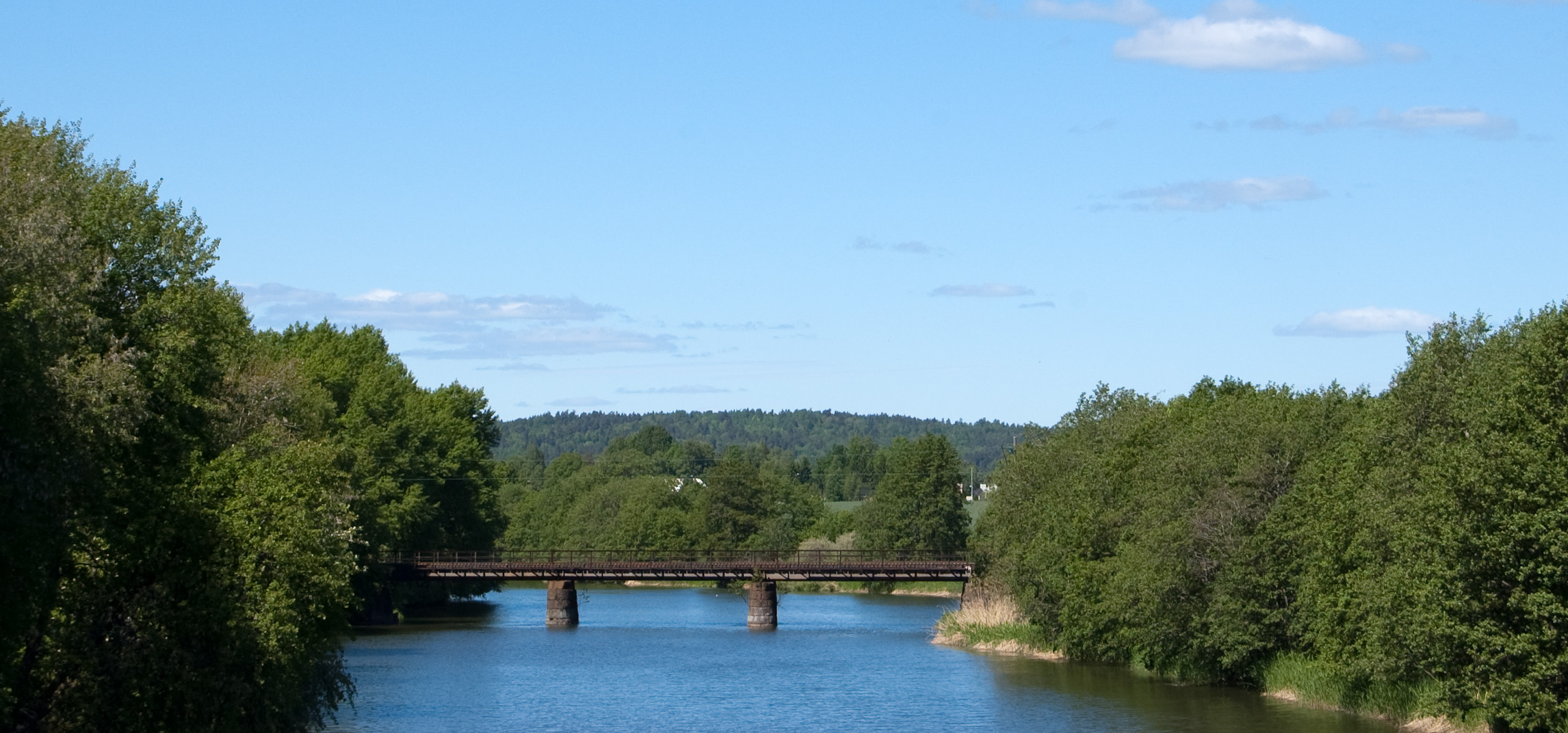 Aulielva (the Auli river) in Tønsberg, Vestfold, Norway, seen upstream to the northwest. The railway bridge is part of the Vestfold Line.